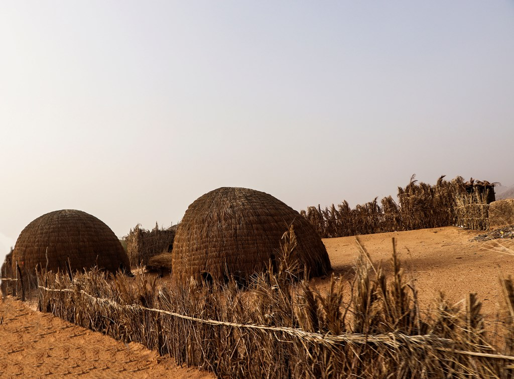 Vernacular architecture of Mhaïreth in Mauritania: Tikitt, Zeriba